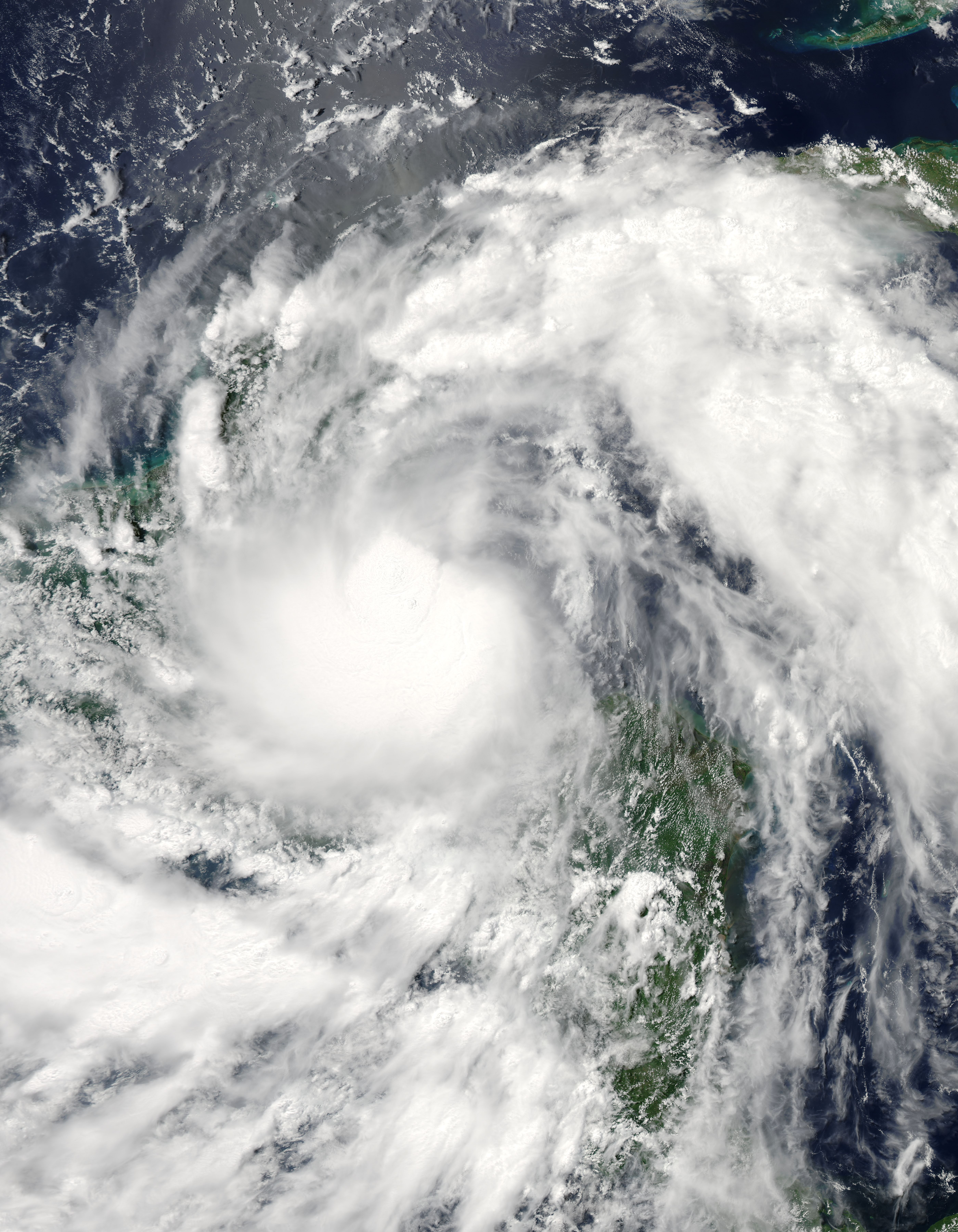 Tropical Storm Alex on June 26, 2010